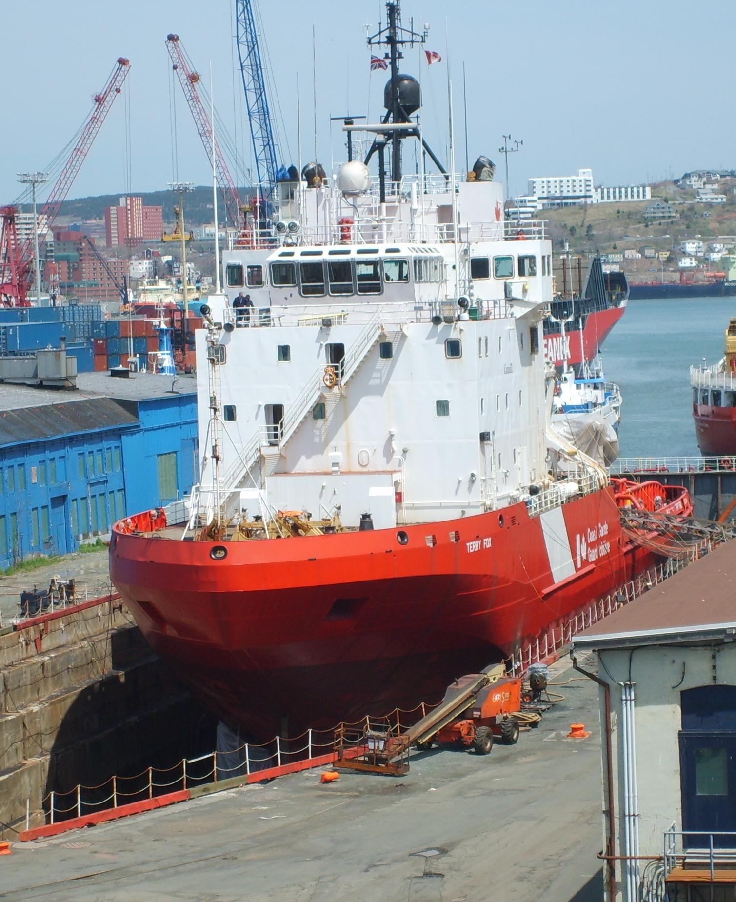 NewDock Shipyard, St. John's, Newfoundland, Canada with CCGS Terry Fox in dry dock during spring refit 2008.